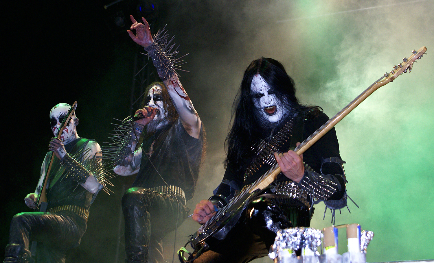 Gorgoroth playing live at Party San Open Air 2007.